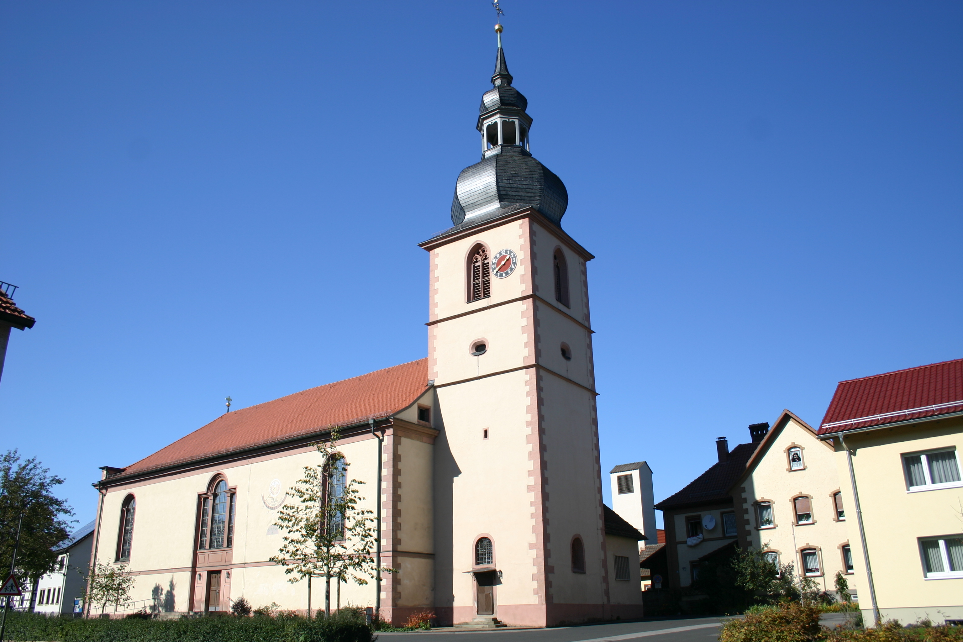 Unterweißenbrunn, Bischofsheim an der Rhön Brendstrasse 87 Pfarrkirche St. Katharina Unterweißenbrunn